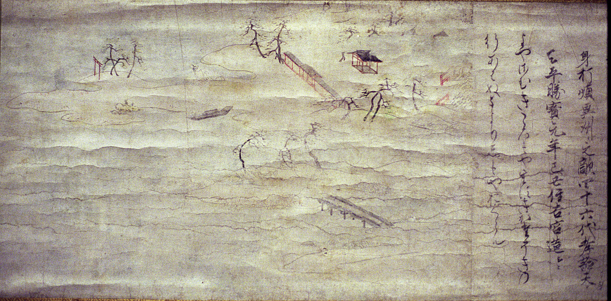 Sumiyoshi Shrine as a deity of poem, A flagment of 36 poets scroll(SATAKE handscroll), colour on paper, mounted to hanging scroll, height about 36cm, left part, right 6 lines description not included. 13th century, Japan, in Tokyo National Museum, Tokyo, Japan